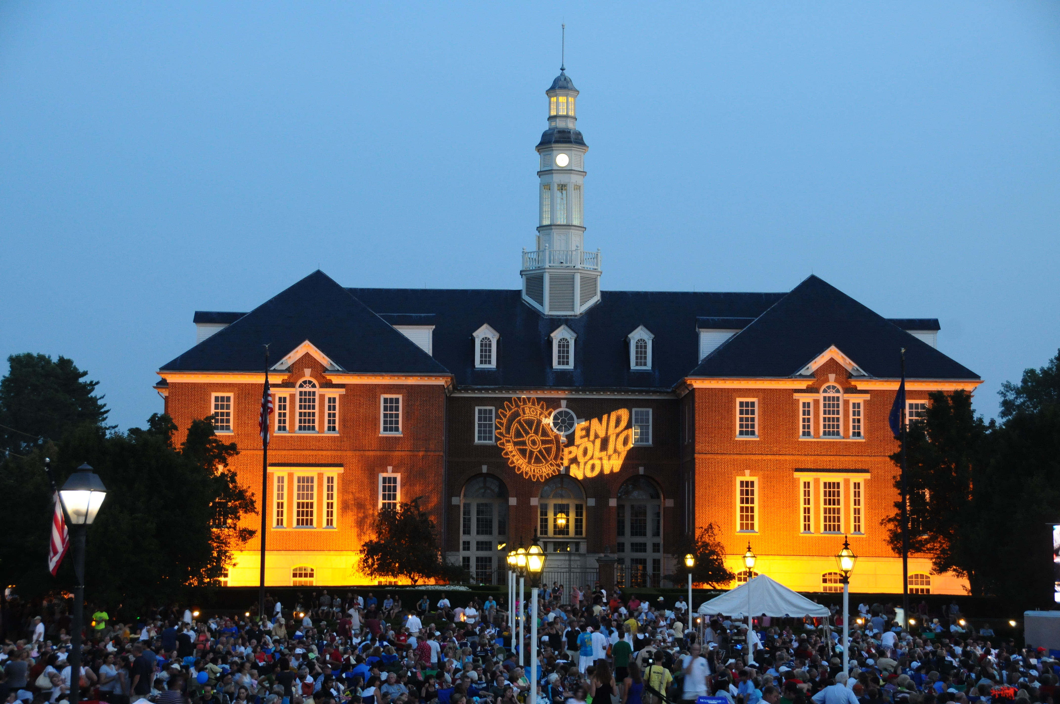 ...On July 5th. Fireworks at Carmel Festival, Indiana SOOC